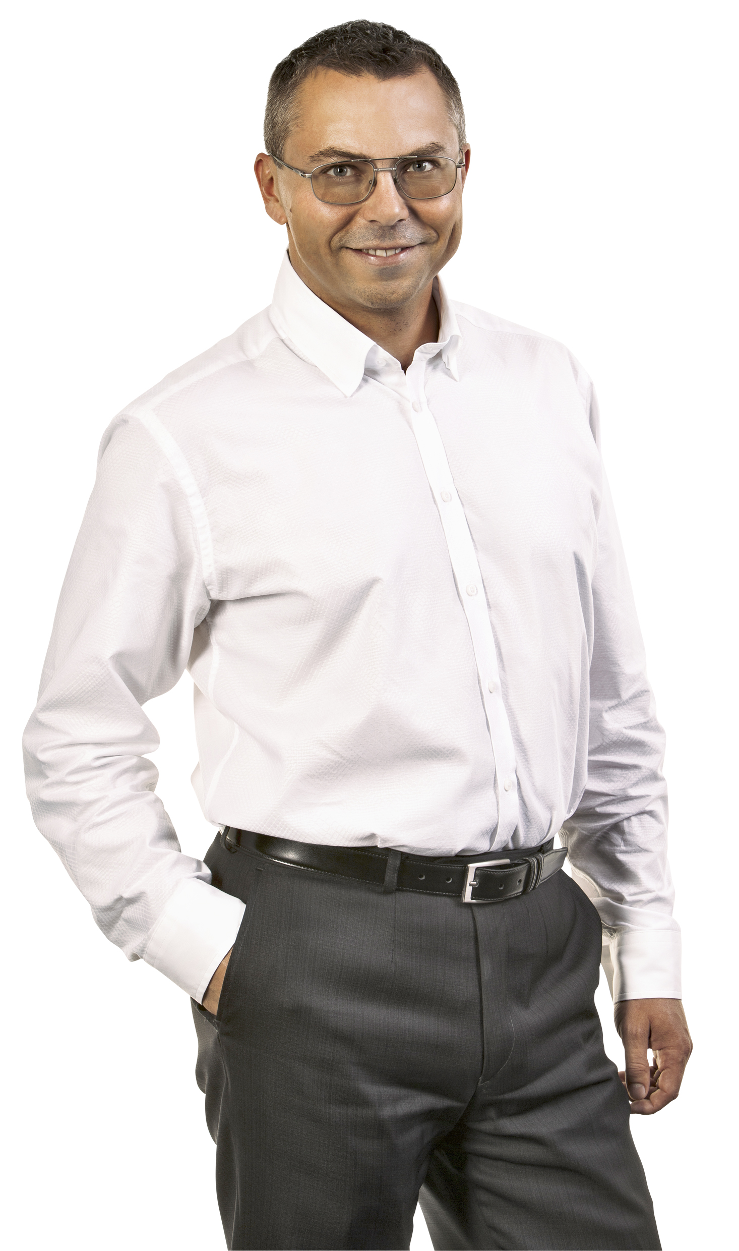 Martin Sedlar